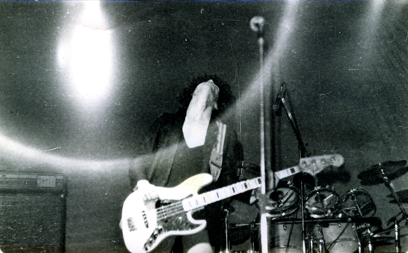 Vlado Kalember, frontman of the "Srebrna Krila" (Silver Wings) band, performed in Niš (Serbia) in the early 80's